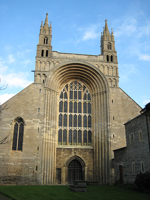 Southwest face, Tewkesbury Abbey One of Britain's largest churches, the abbey was founded by Robert Fitz Hamon at the end of the 11th century as a Benedictine monastery. It is built from stone brought by sea and river from Normandy in the 12th century.